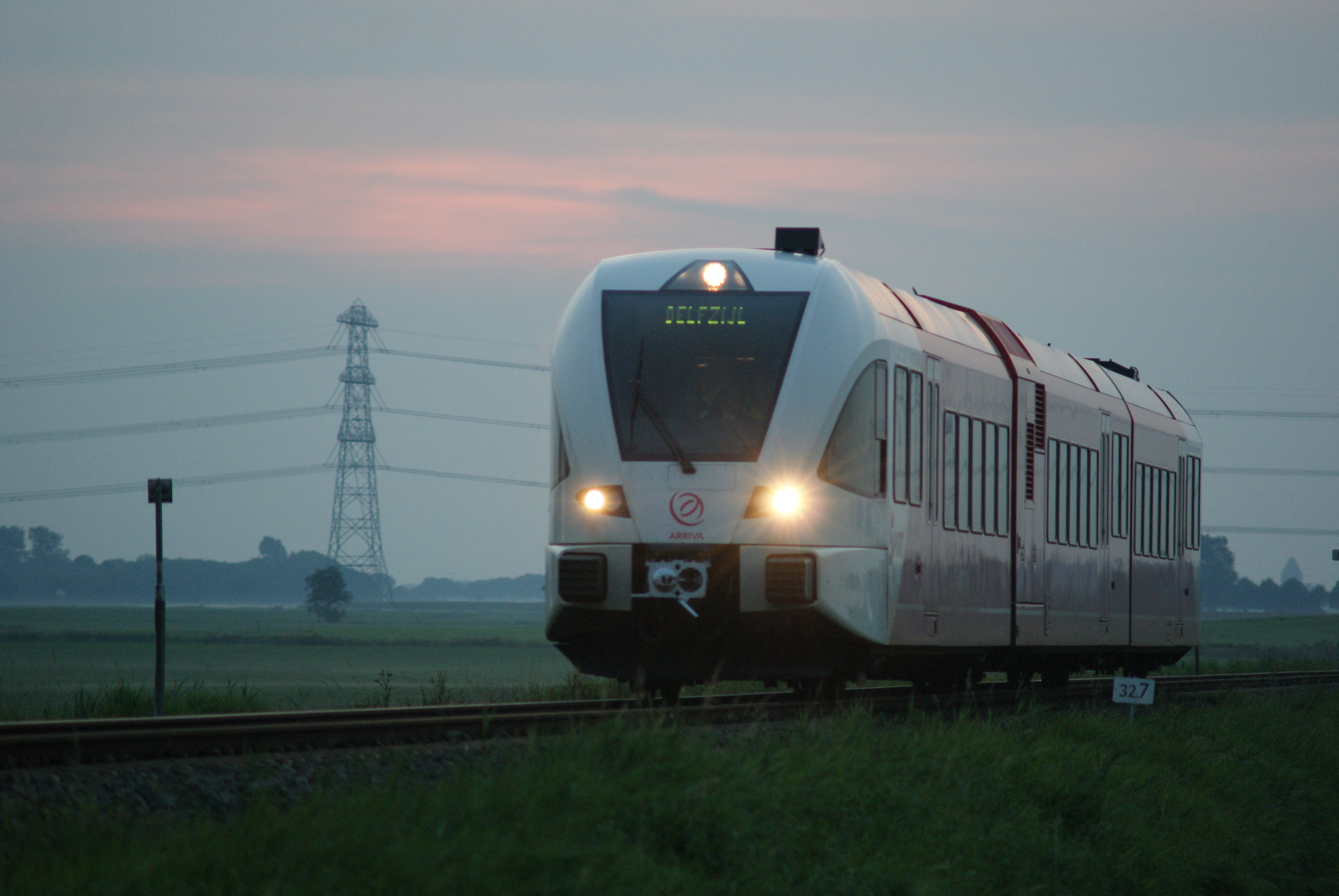 A train from Groningen to Delfzijl in the Netherlands. This is a GTW made by Stadler Rail.